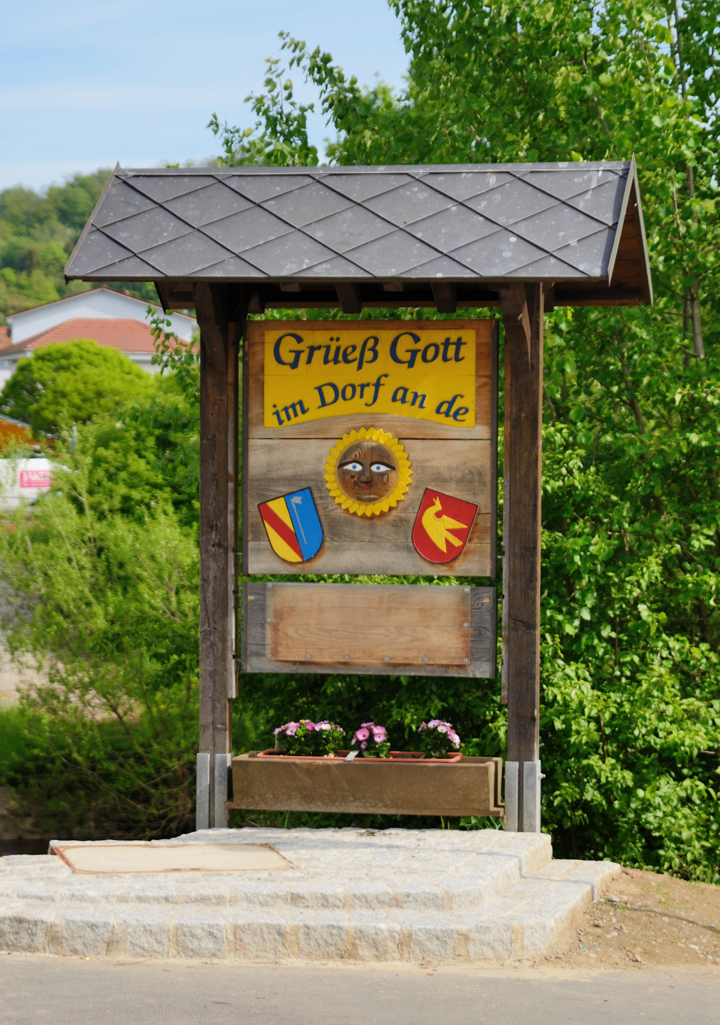 Hauingen: town sign